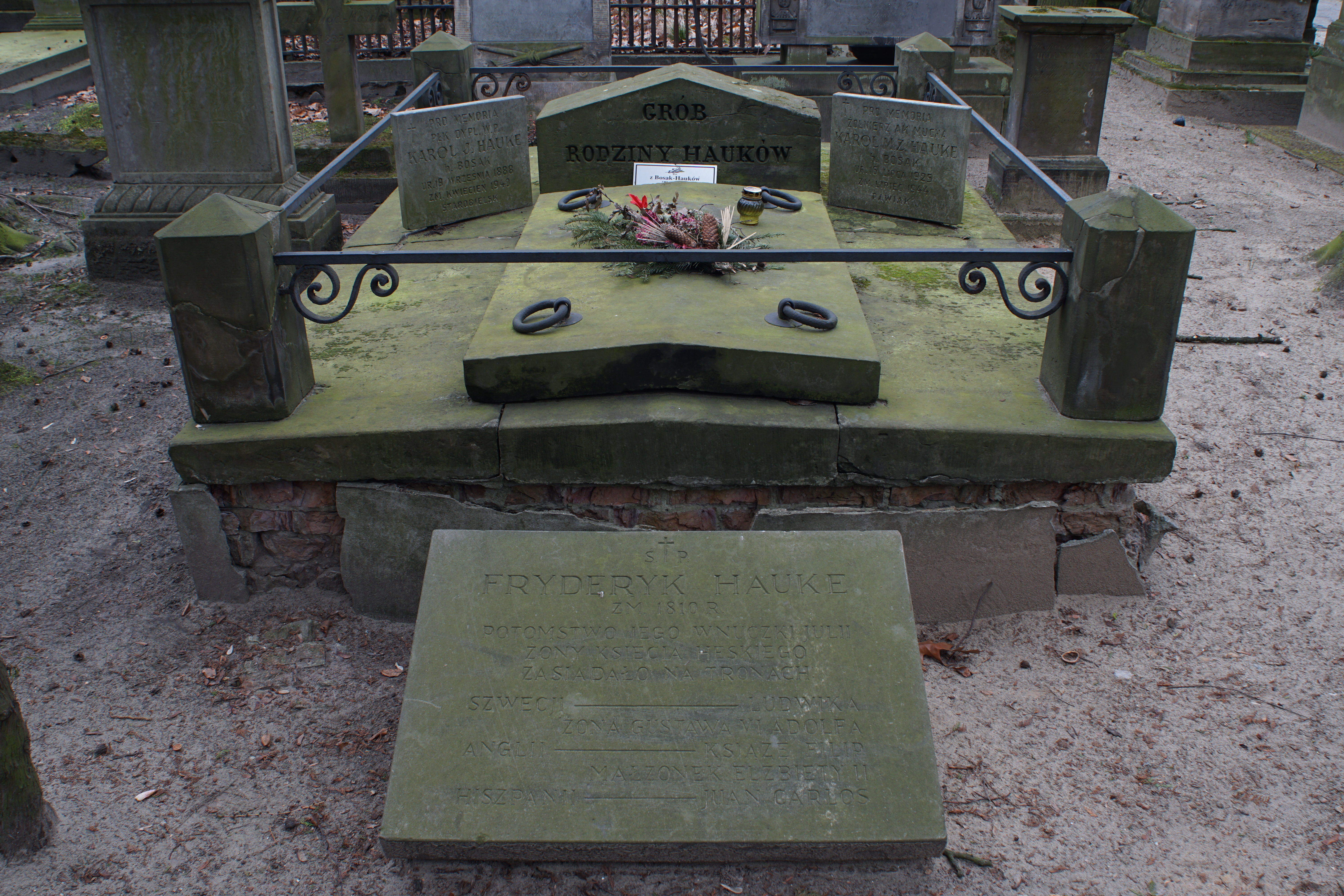 The grave of Fryderyk Karol Hauke at the Powązki Cemetery (section 10, row 3, grave 5)